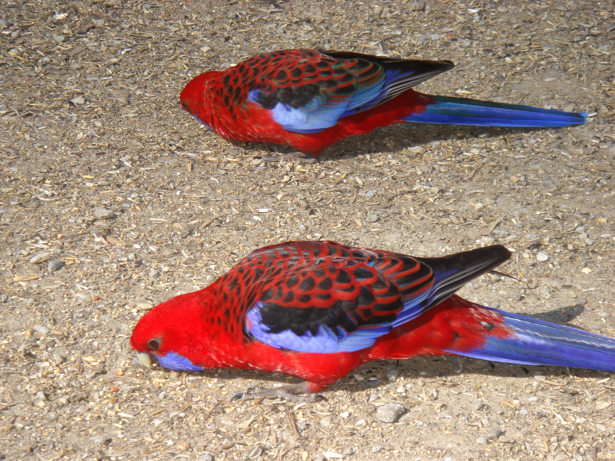 Crimson Rosella (Platycercus elegans) - two eating seeds from the ground.